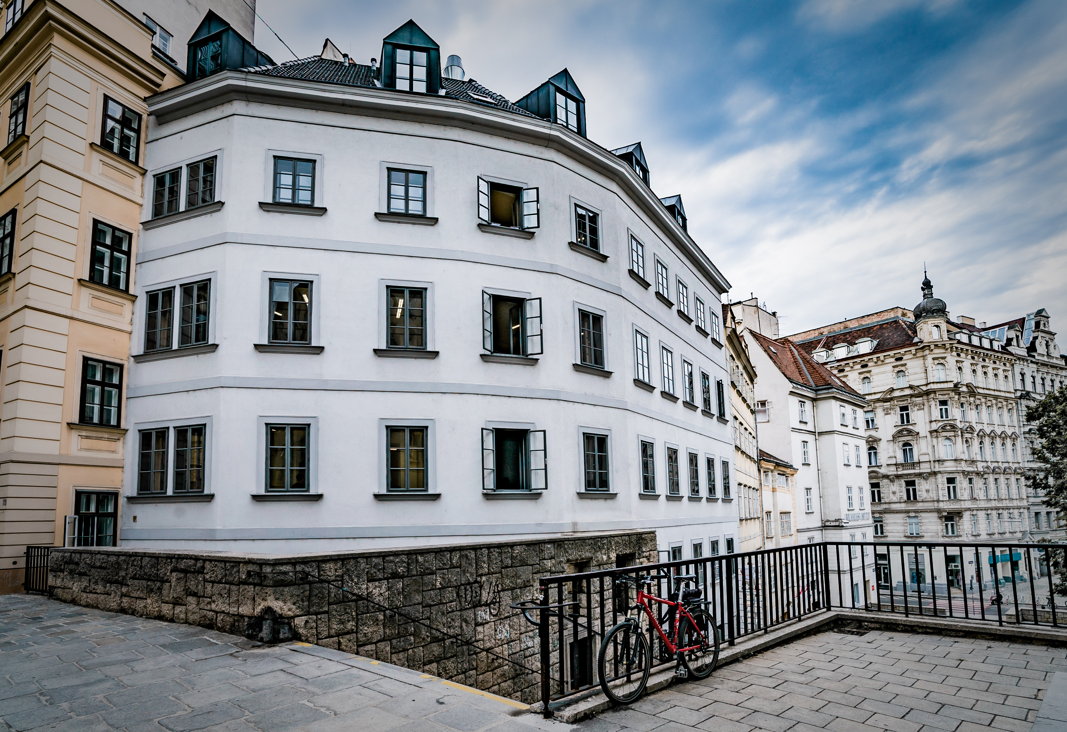 Newly renovated headquarters of the European Society of Radiology, Am Gestade 1, Vienna.